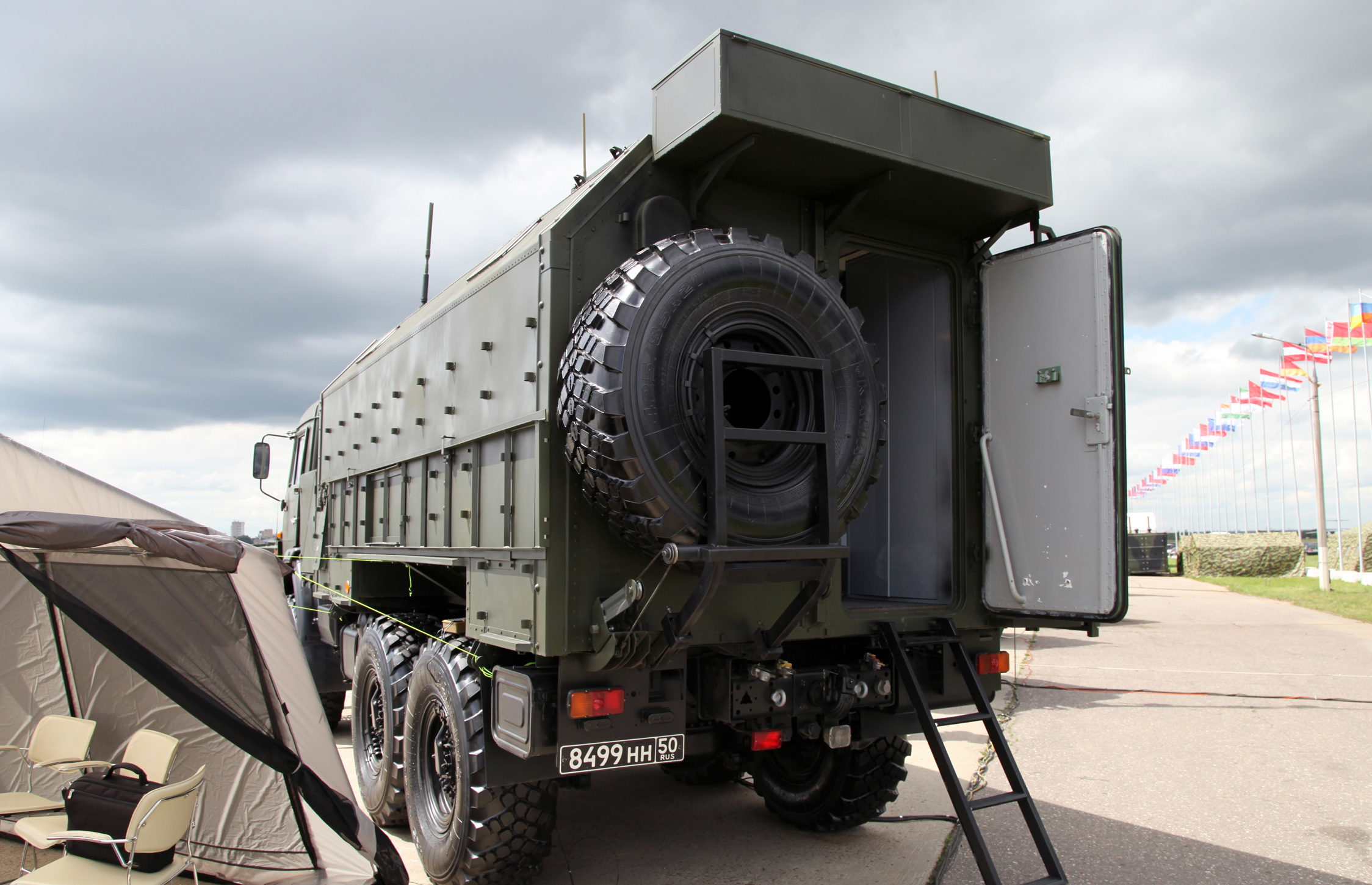 Russian combined radiostation «R-142NMR», in order to provide C3 on tactical level, autonomous or in automated C3 system (ASUV TZ).